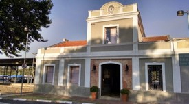 Mogi Mirim Station Education